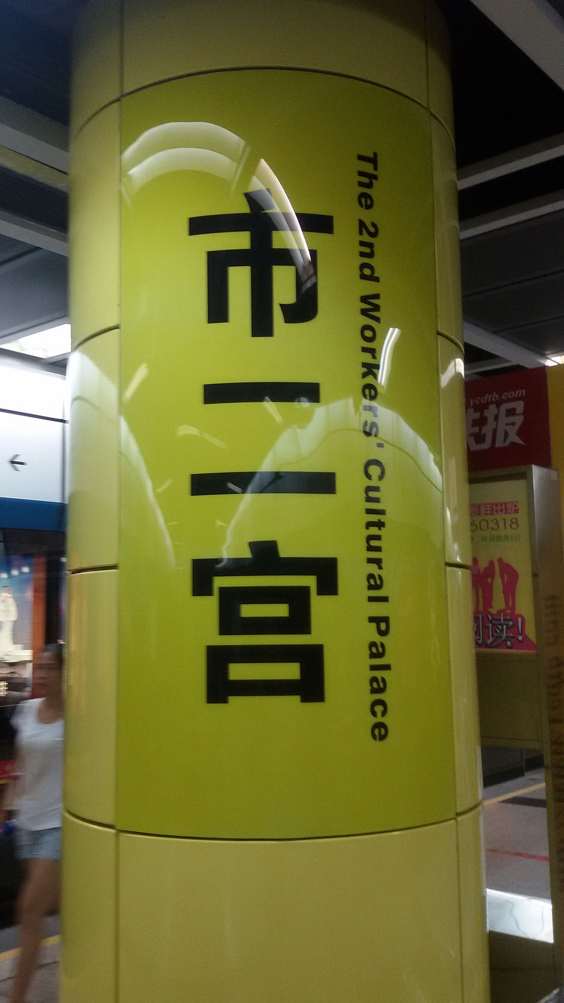 WORD on PILLAR for 2nd Workers' Cultural Palace Station Station, Guangzhou Metro.